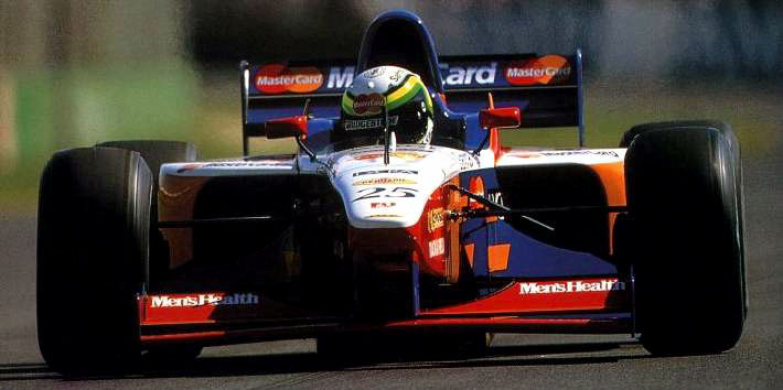 Ricardo Rosset in the Lola T97/30. Australian Grand Prix Weekend, 8 March 1997